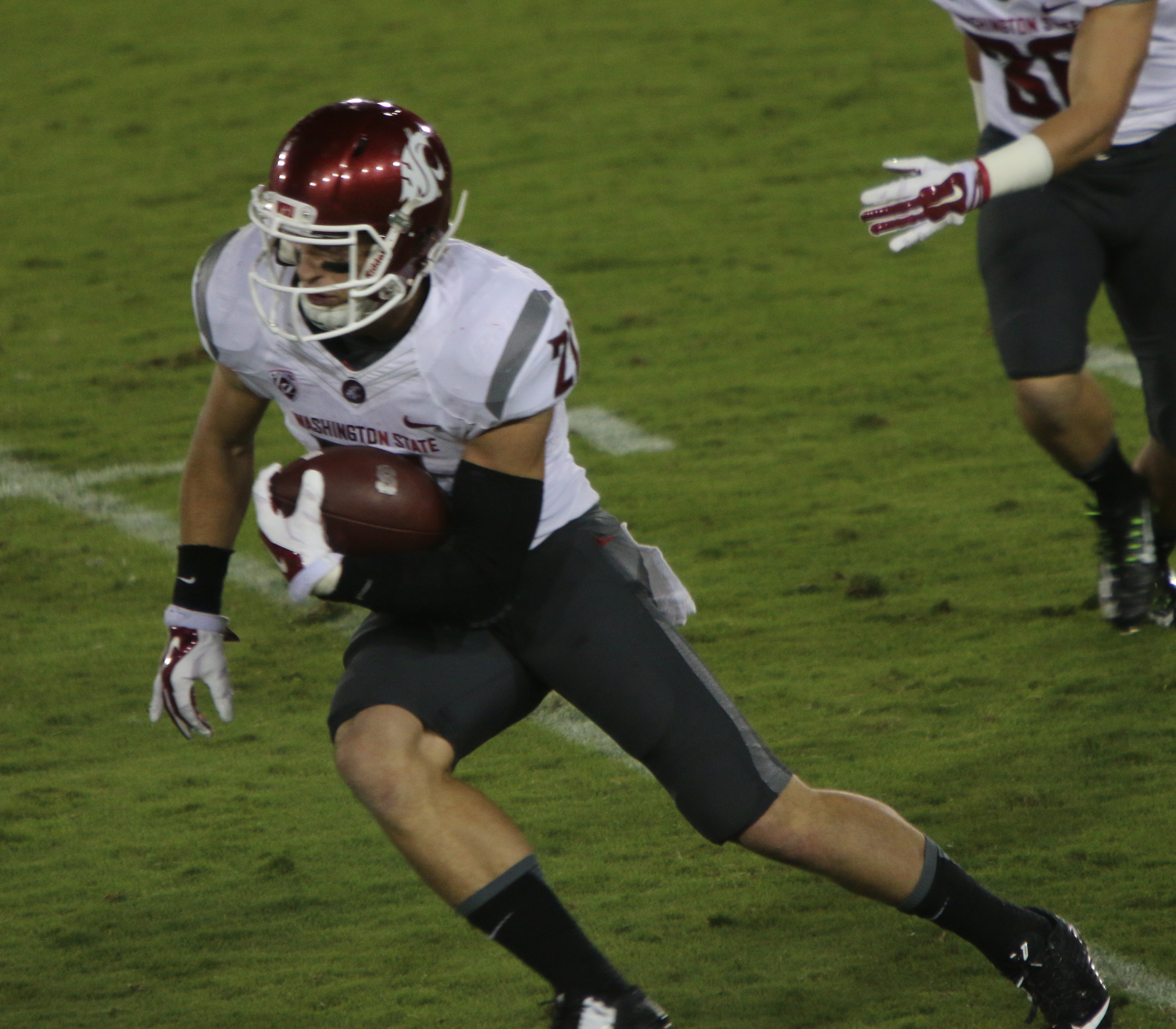 River Cracraft at Washington State in 2014